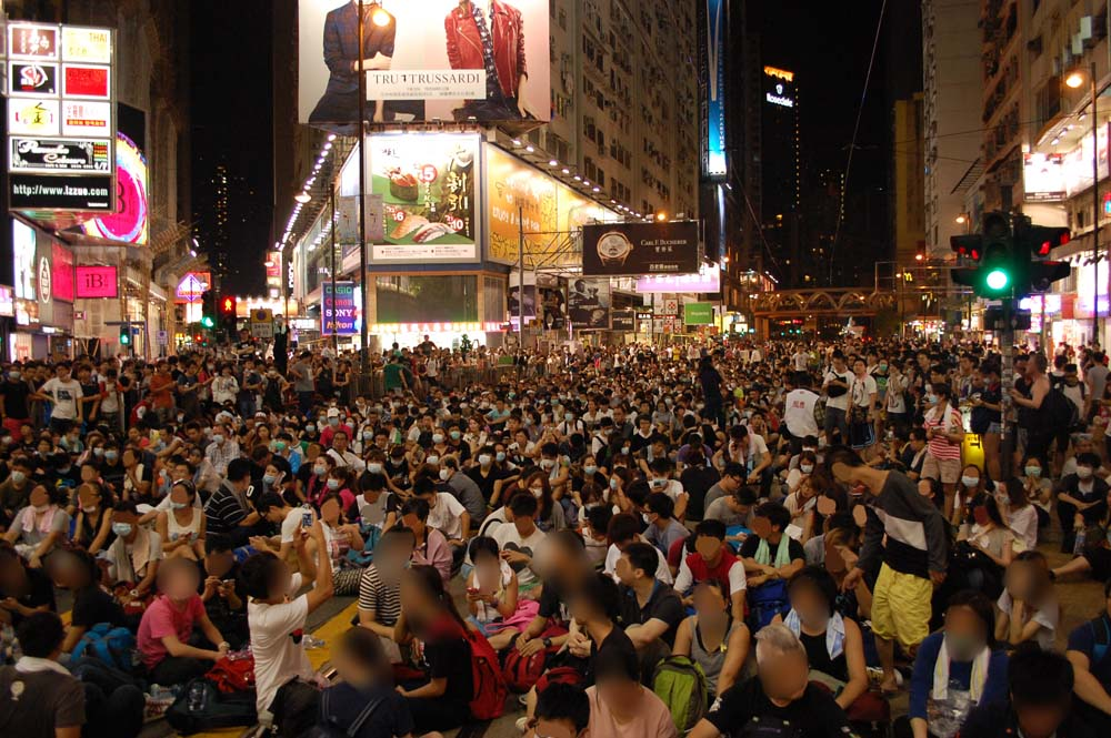 Protesters begin a sit-in on Hennessy Road, Causeway Bay during Occupy Central with Love and Peace. Faces in the foreground have been digitally blurred.